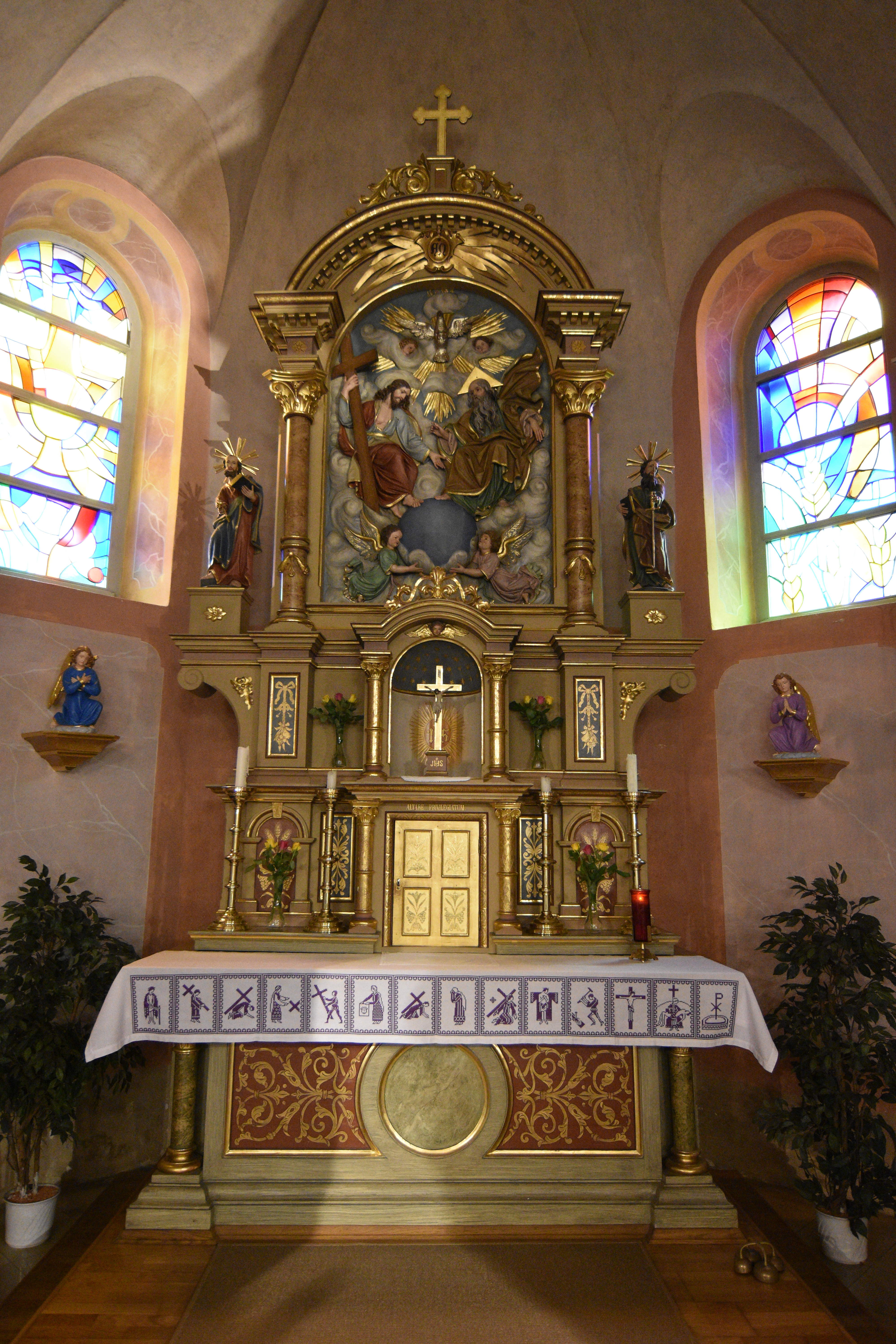 Church Grafenschachen - Interior